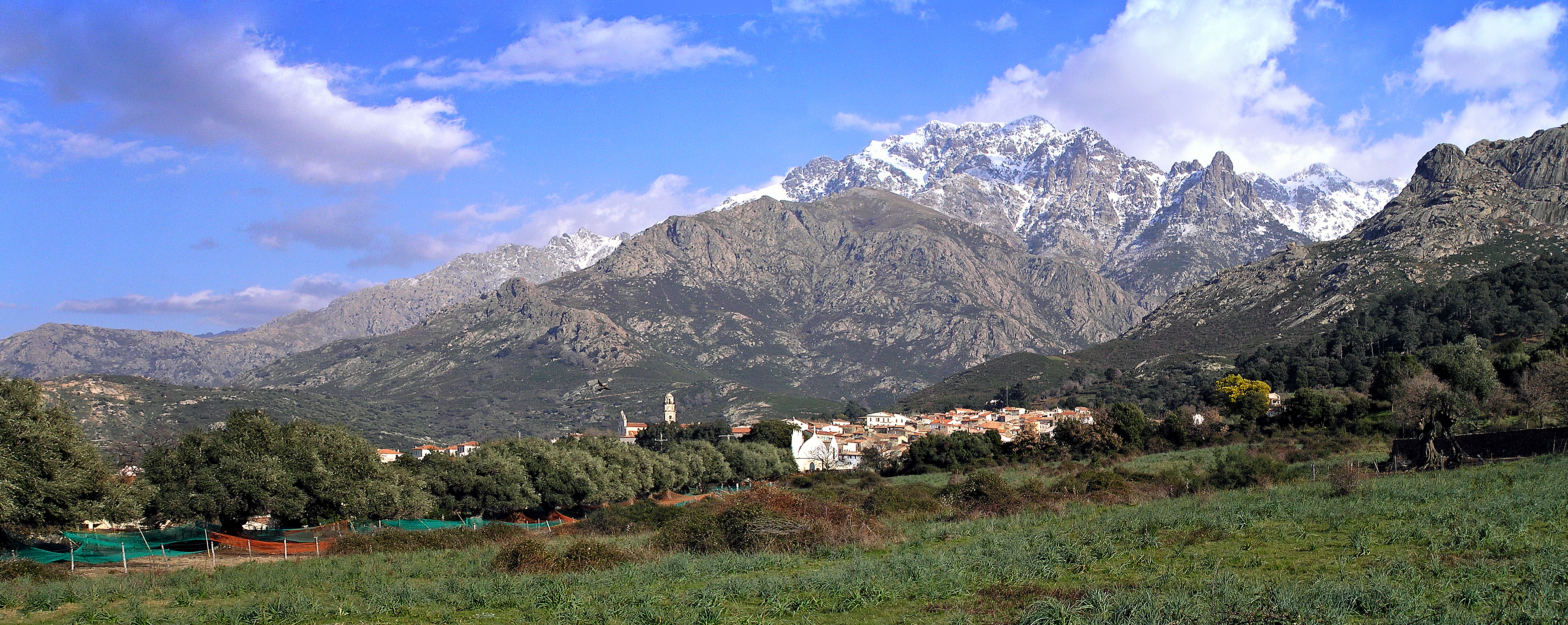 Calenzana, Balagne (Corsica) - Olive harvest